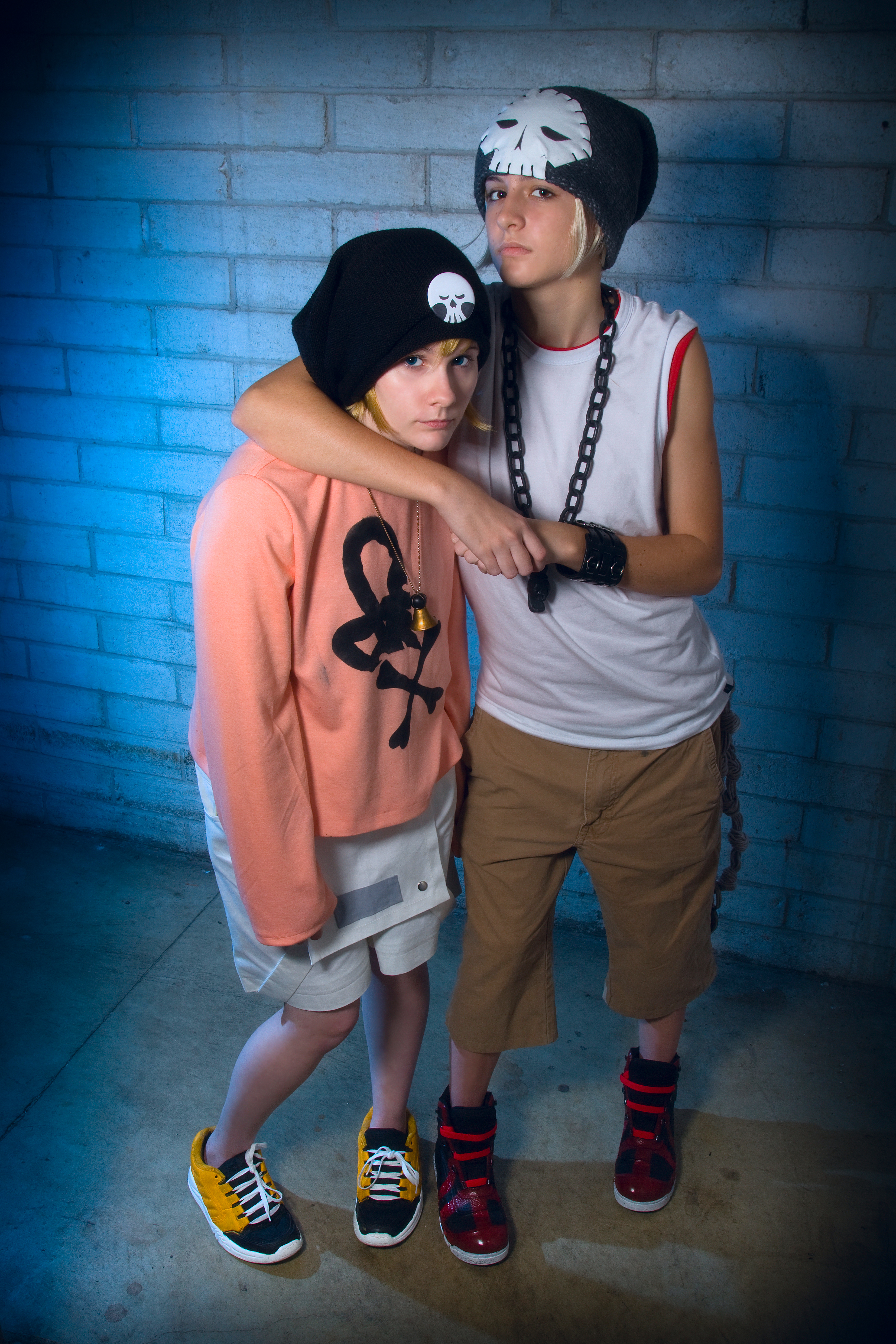 Beat and Rhyme Cosplay from Square Enix's The World Ends with You. For Nintendo DS. 7D with a Tamron 17-50, Main light 550EX In my homemade beauty dish seen here. backlight 420EX on floor behind subject. Cosplay at Youmacon 2009.